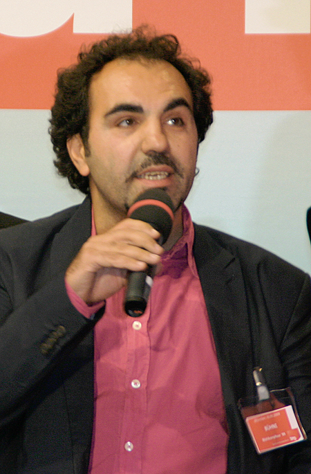 Adnan Maral, Turkish-German actor